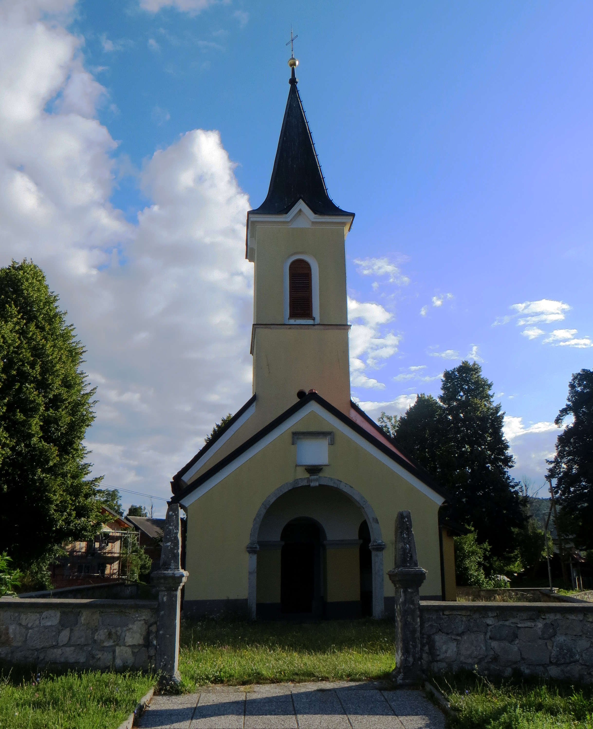 Saint Anthony of Padua Church in Stara Vas, Municipality of Postojna, Slovenia